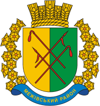 Coats of arms of Mezhova Raion Dnipropetrovk oblast Ukraine